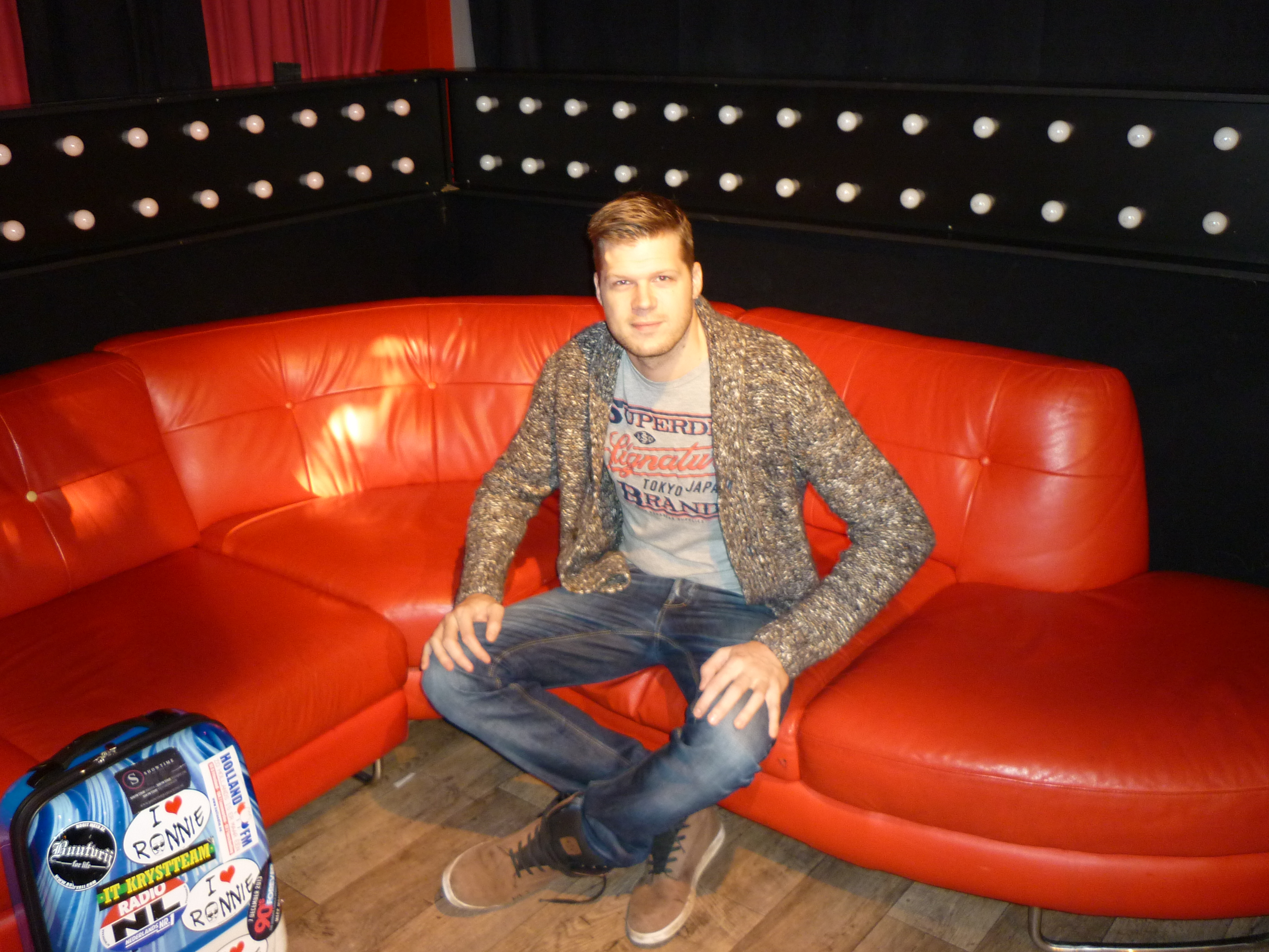 Coen Swijnenberg